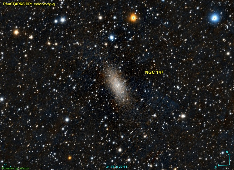 Image created using the Aladin Sky Atlas software from the Strasbourg Astronomical Data Center and Pan-STARRS (Panoramic Survey Telescope And Rapid Response System) public data.